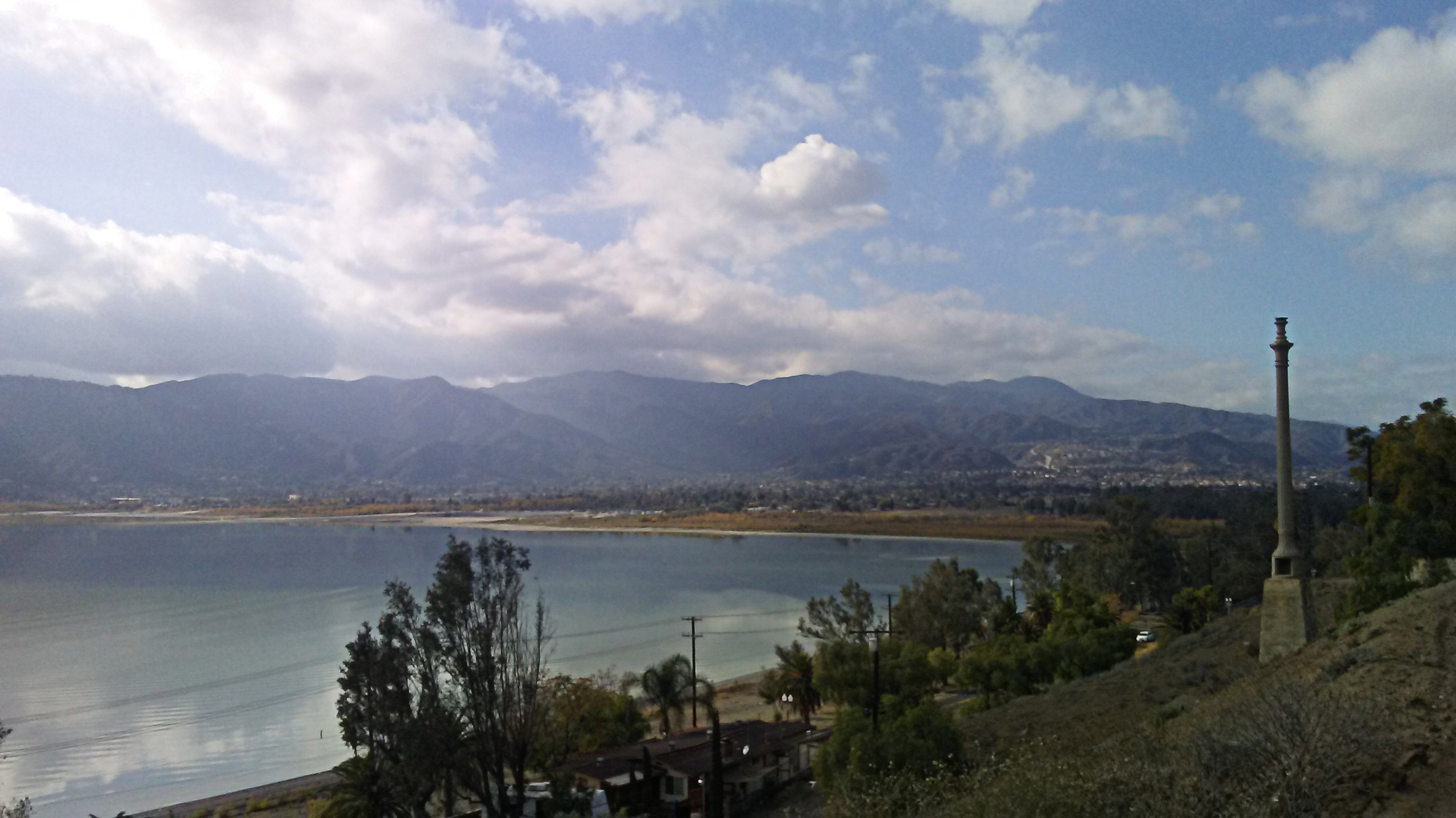 Picture of Lake Elsinore